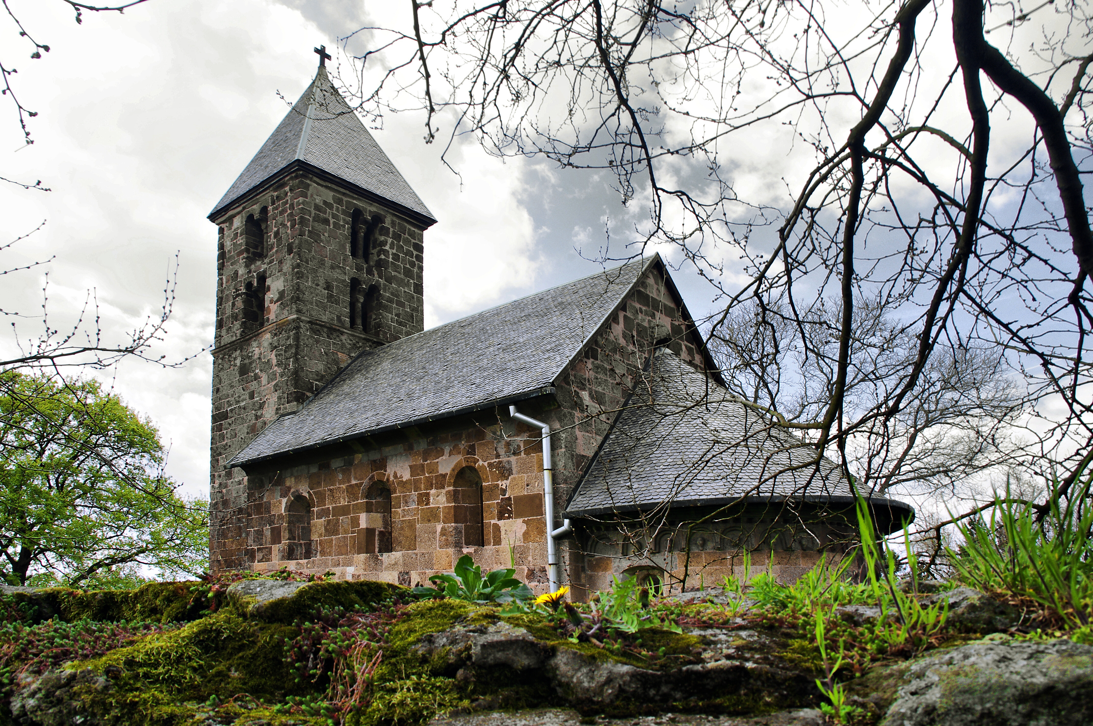 Nagybörzsöny, Pest county, Hungary. Old parish church named after St.Stephen of Hungary in romanesque style, from the 13-15th century.